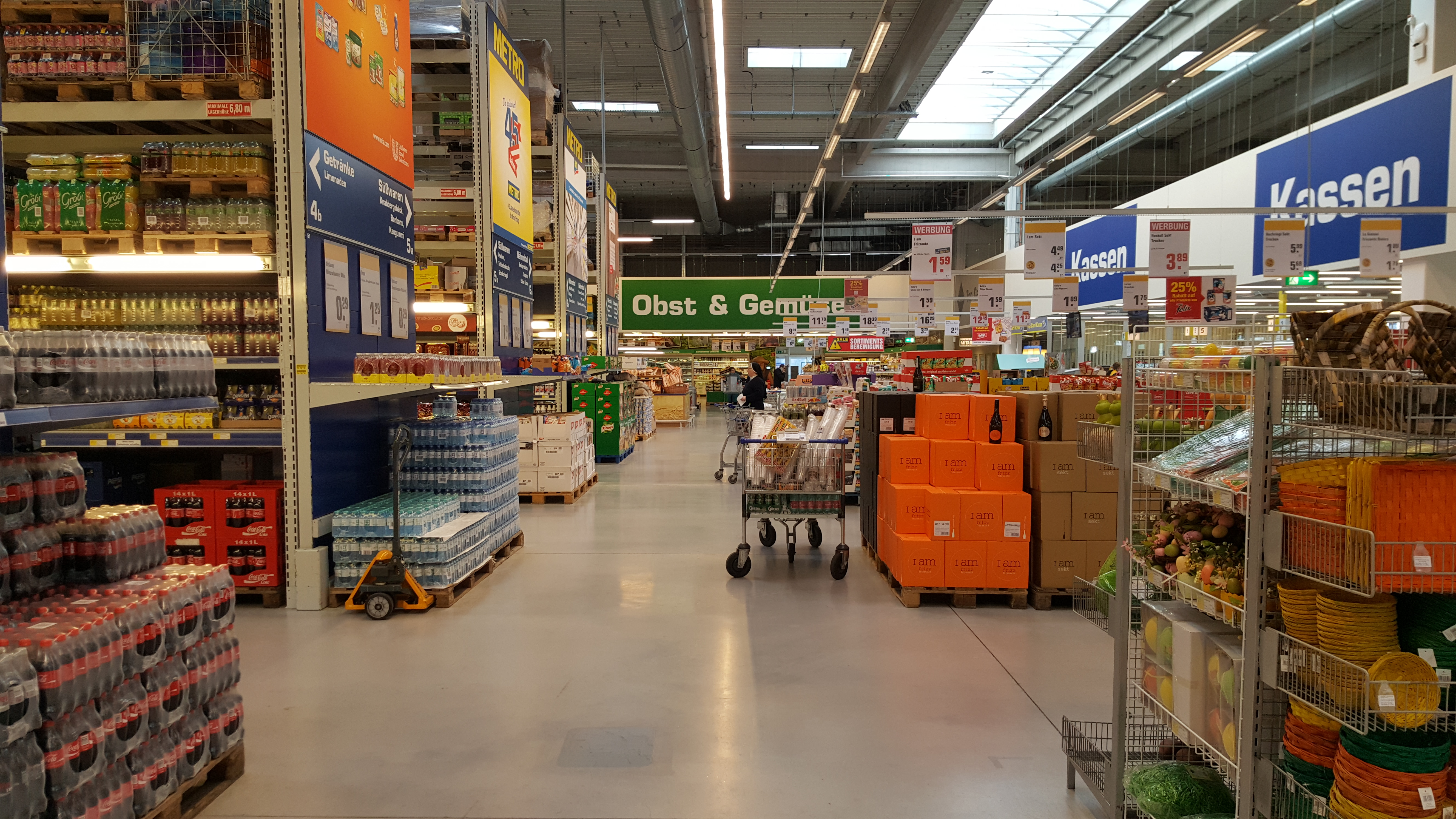 Hypermarket Metro Austria in Vienna - Simmering